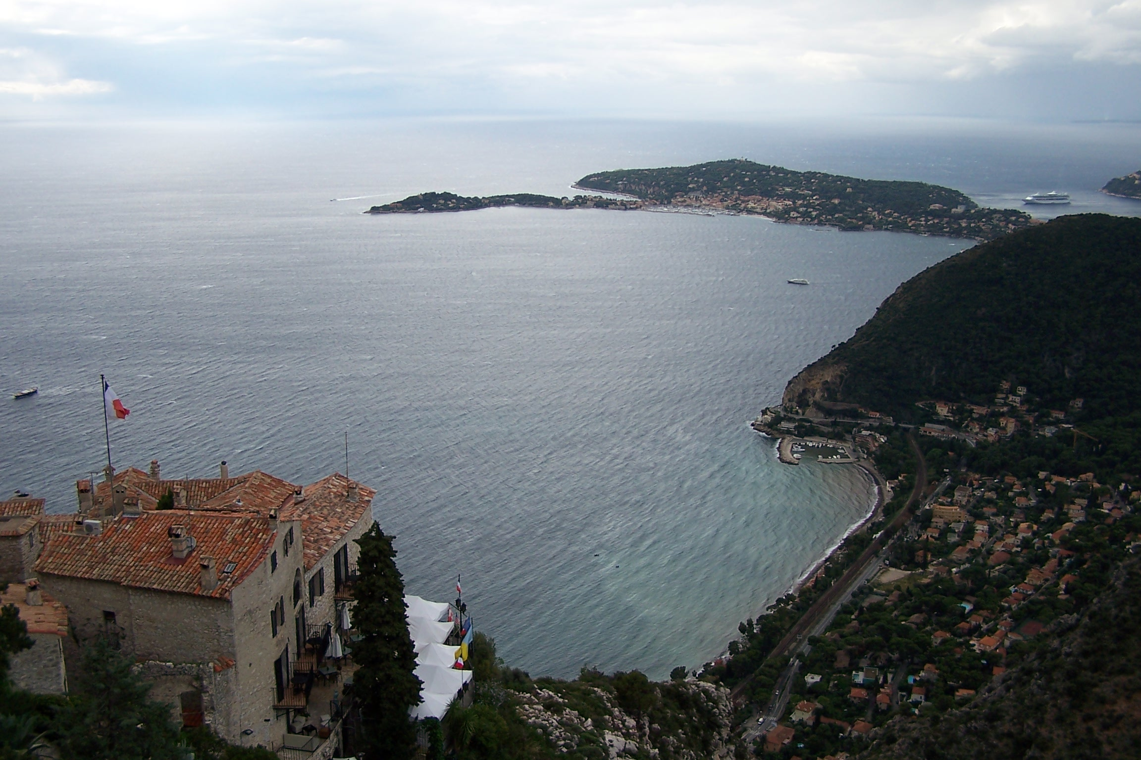 View from Eze to Cap Ferrat.